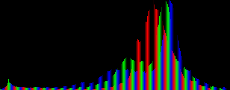 RGB-Histogram of the Odd-eyed cat picture shown in the Color Histogram article on the english wikipedia. X-Axis is RGB, Y-Axis is Frequency.